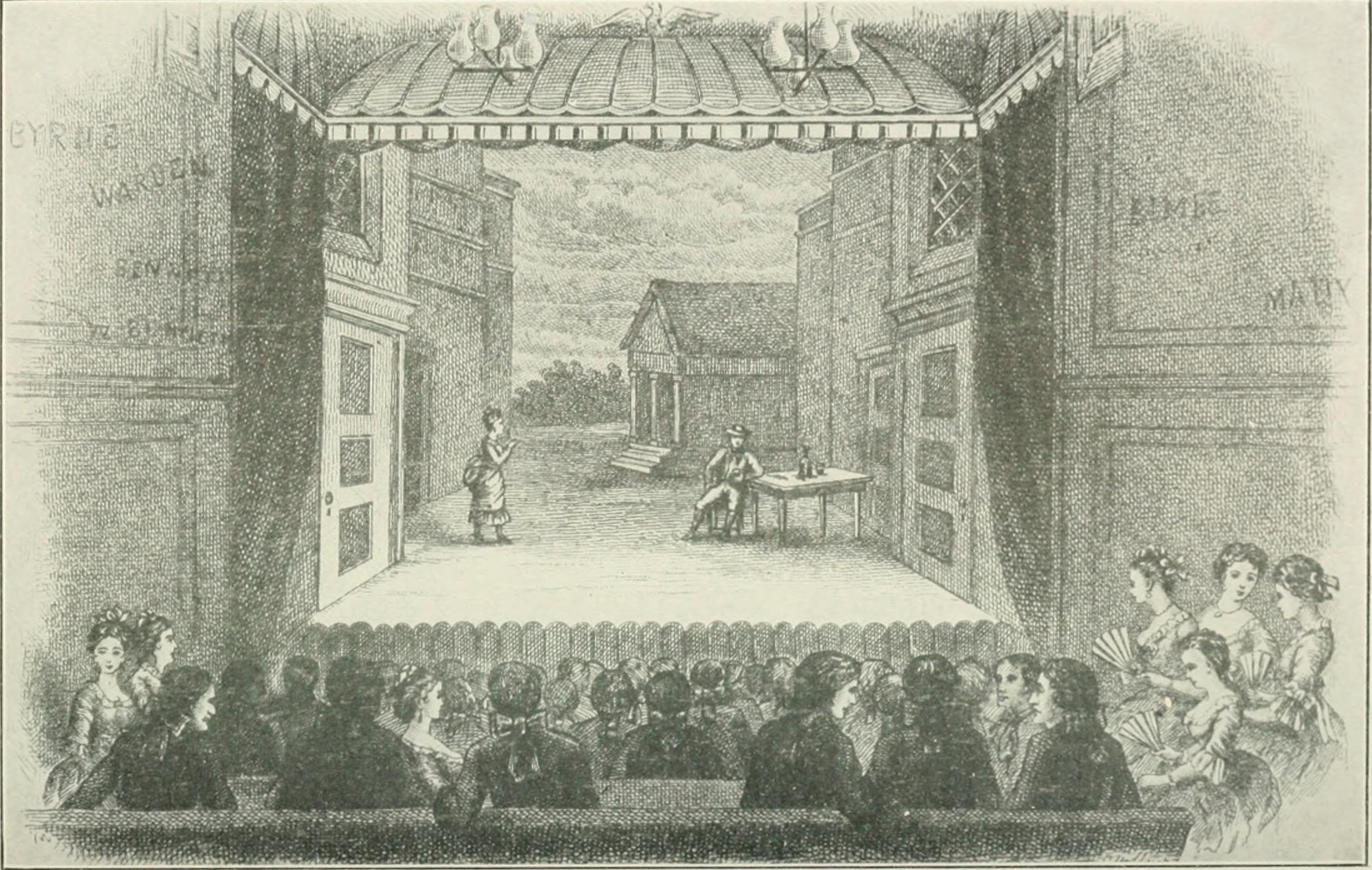 Title: Our theatres to-day and yesterday Year: 1913 (1910s) Authors: Dimmick, Ruth Crosby Subjects: Theater -- New York (State) New York Publisher: New York : The H.K. Fly Company Text Appearing Before Image: wood and was painted red. It 16 OUR THEATRES TO DAY AND YESTERDAY. DESCRIPTION OF JOHN STREET THEATRE. had two rows of boxes and a pit and gallery. The capacity ofthe house was about $800. The stage was large enough to ac-commodate all the requirements of that era, and the dressingrooms and green room were in a shed adjacent to the mainbuilding. Toward the close of 67 an Indian delegation from South Car-olina, comprising the famous Attakullakulla or the Little Car-penter, and the Raven King of Tcogoloo, with six other chiefs,visited this theatre and, in order to meet the tastes of theiruntutored minds, a pantomime was substituted for the Oracle,which had been announced for the afterpiece for the evening.At the conclusion of the performance, the warriors, being desir-ous of making some return for the friendly reception and civili-ties they had received, offered to entertain the public with a warda -ce. Their offer was accepted, and their dance was given onthe stage after the pantomime. Text Appearing After Image: '